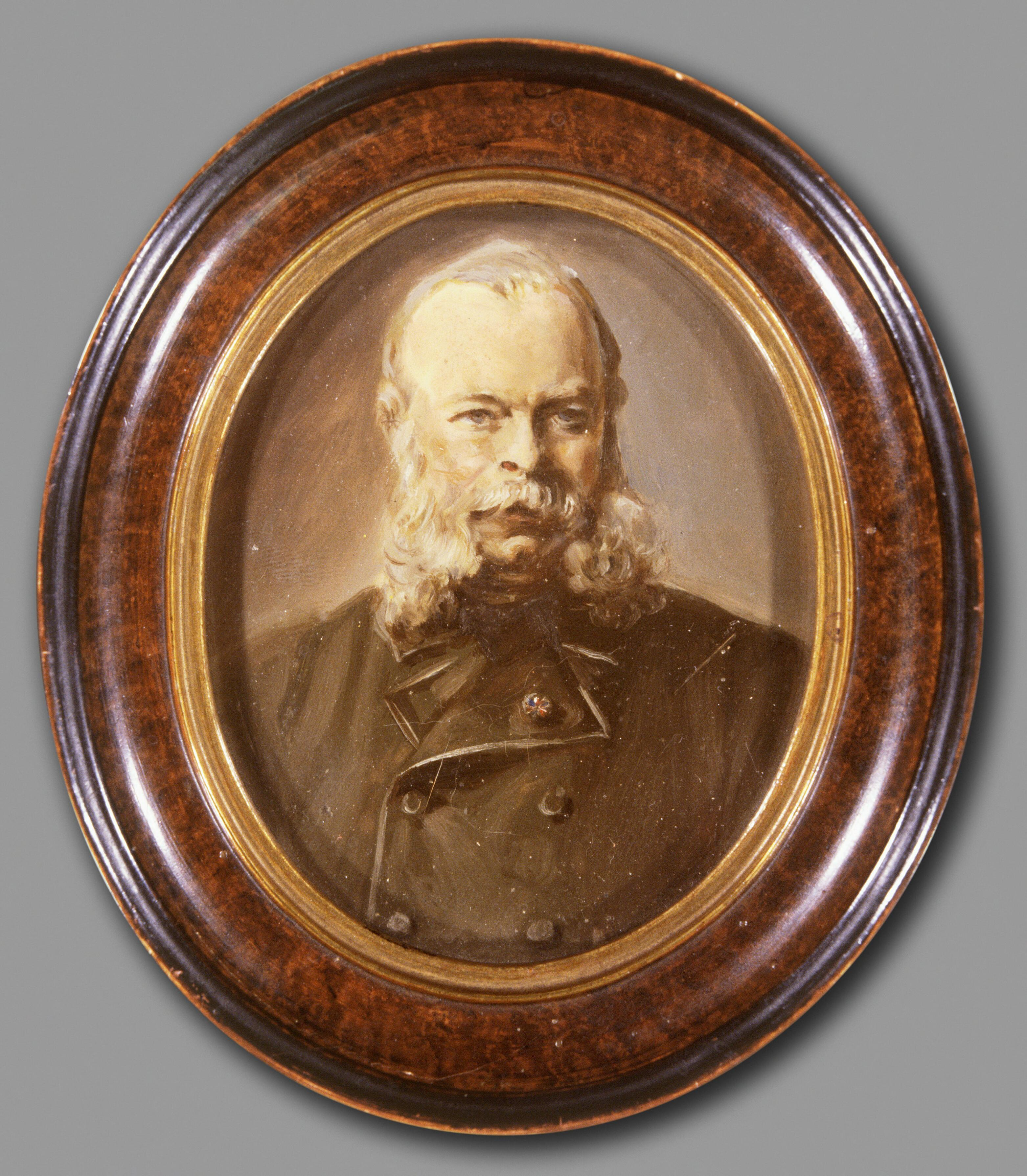 photograph of Carel Jan Christiaan Hendrik (Carel) van Nispen van Sevenaer